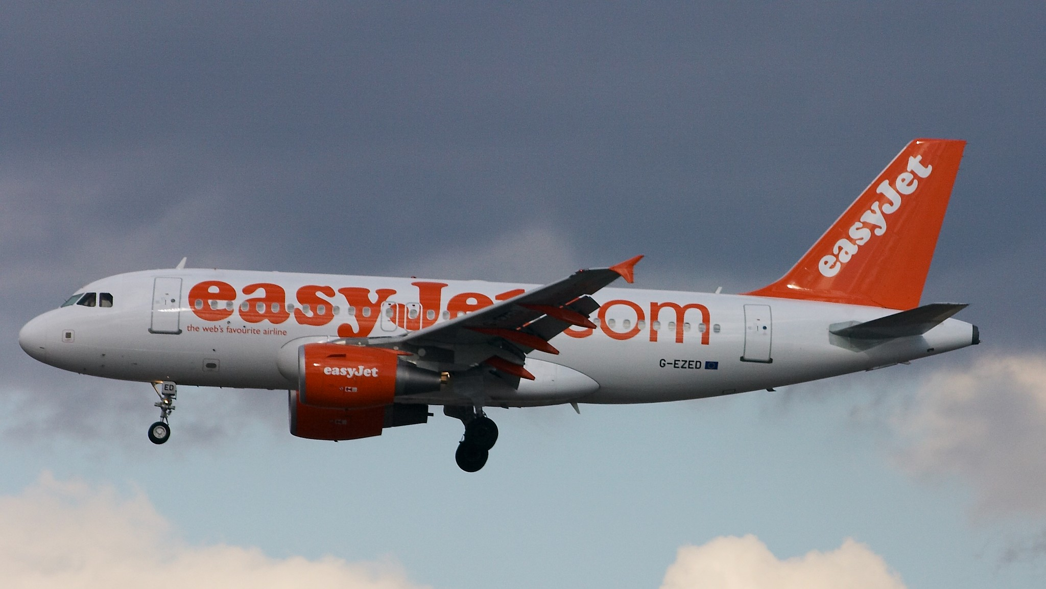 EasyJet Airbus A319-111 landing on runway 33, Madrid Barajas Airport.